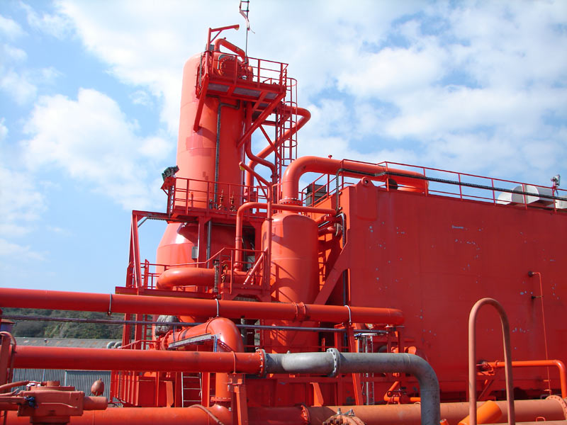 A Volatile Organic Compound (VOC) scavenging system on the oil tanker Juanita. This system allows reliquefying gases usually escaping from the tanks, thus limiting pollution and losses up to 100 tonnes per trip.